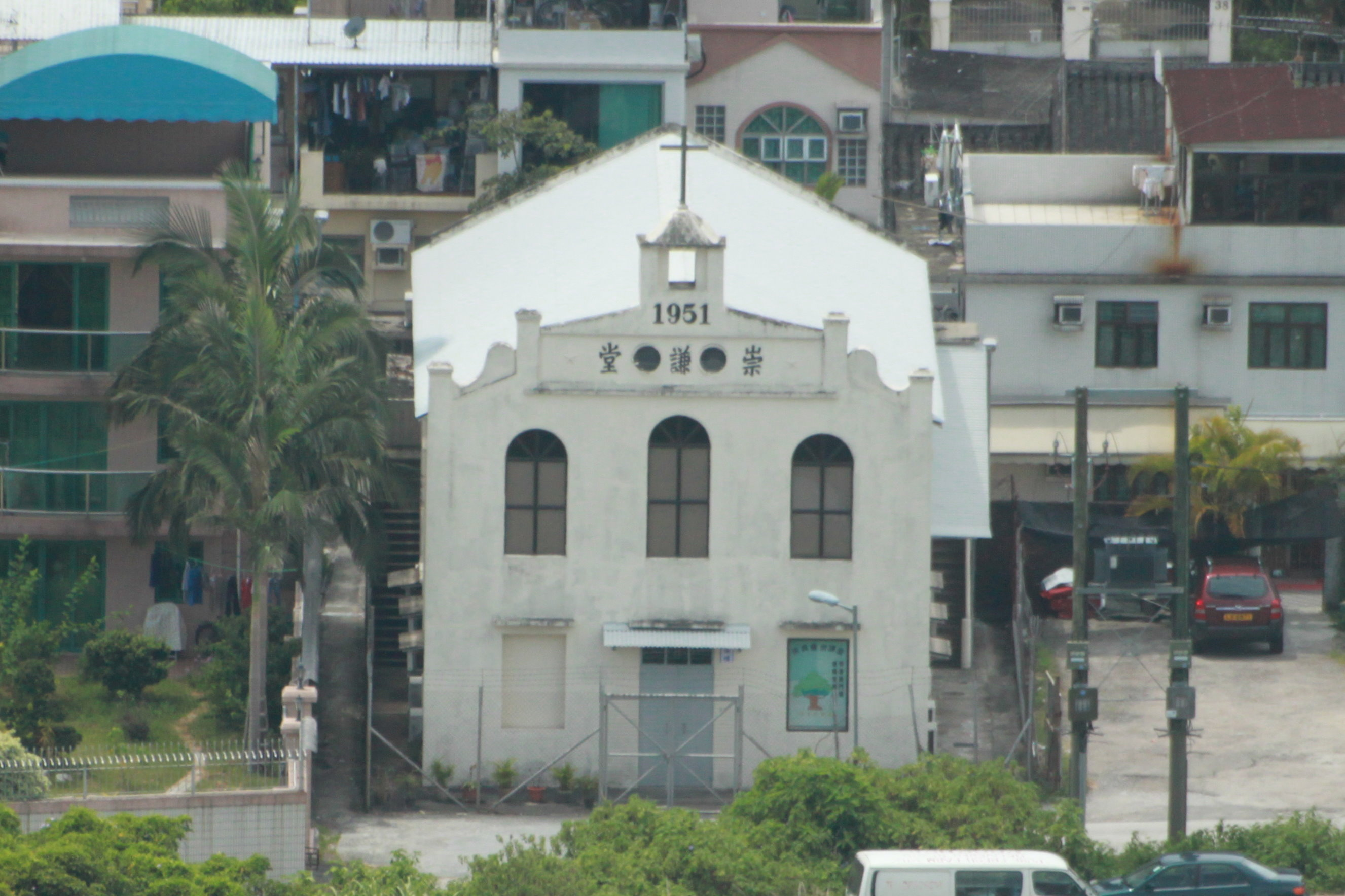 Tsung_Kyam_Church